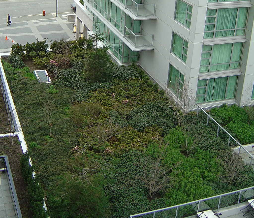 The Marriott Hotel in Victoria, BC, Canada has a green roof above the entrance to the underground parking.